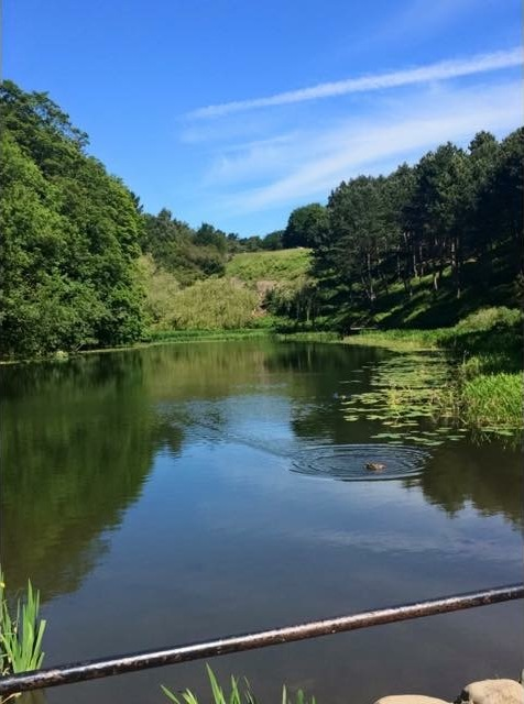 Phoenix Park in Dublin, Ireland. Summer 2015